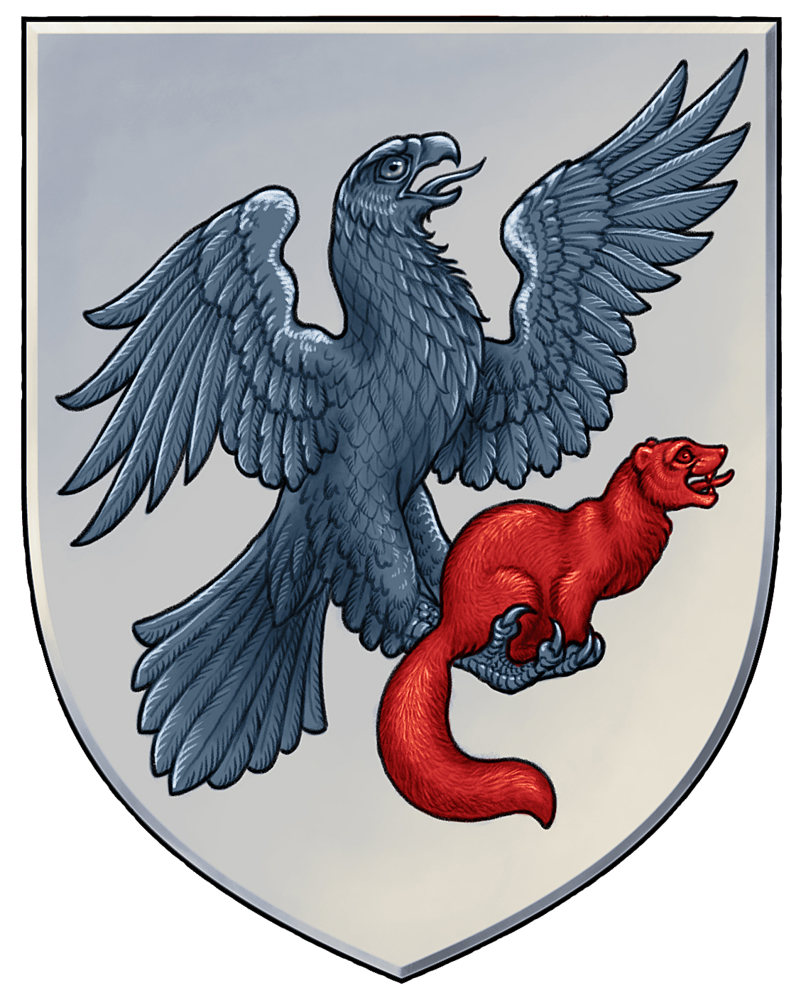 Coat of arms of Yakutsk, Russia